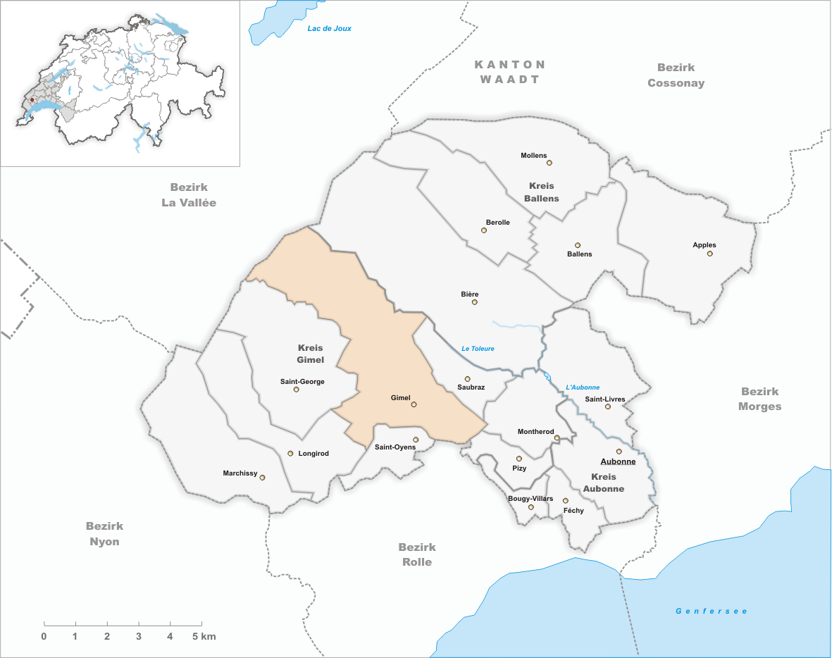 Municipality Gimel